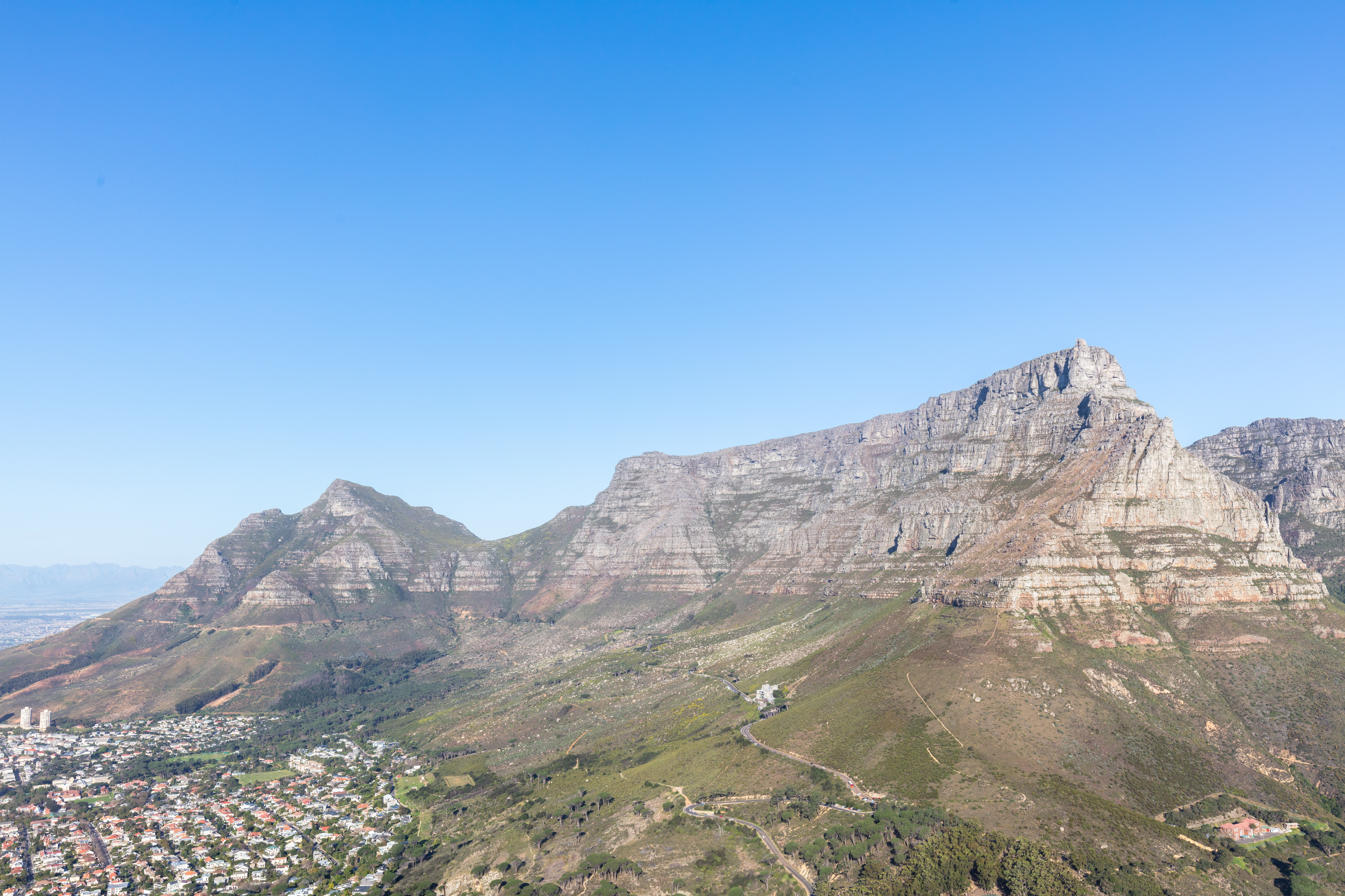 Cape Town viewed from Lion's Head, South Africa